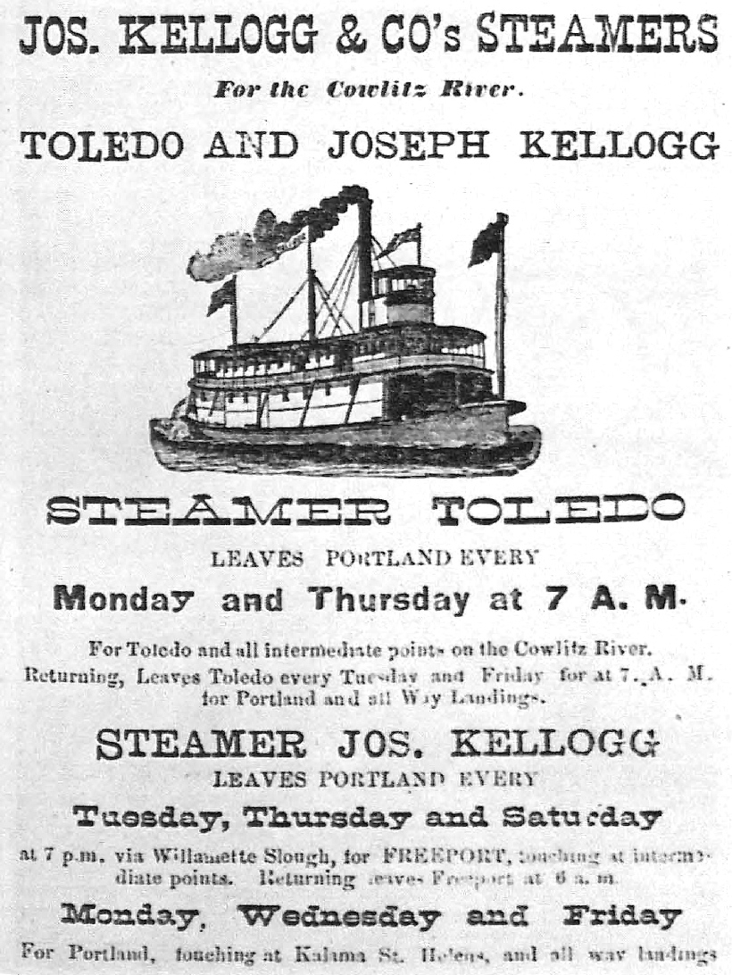 Advertisement for Kellogg steamboat line, circa 1885